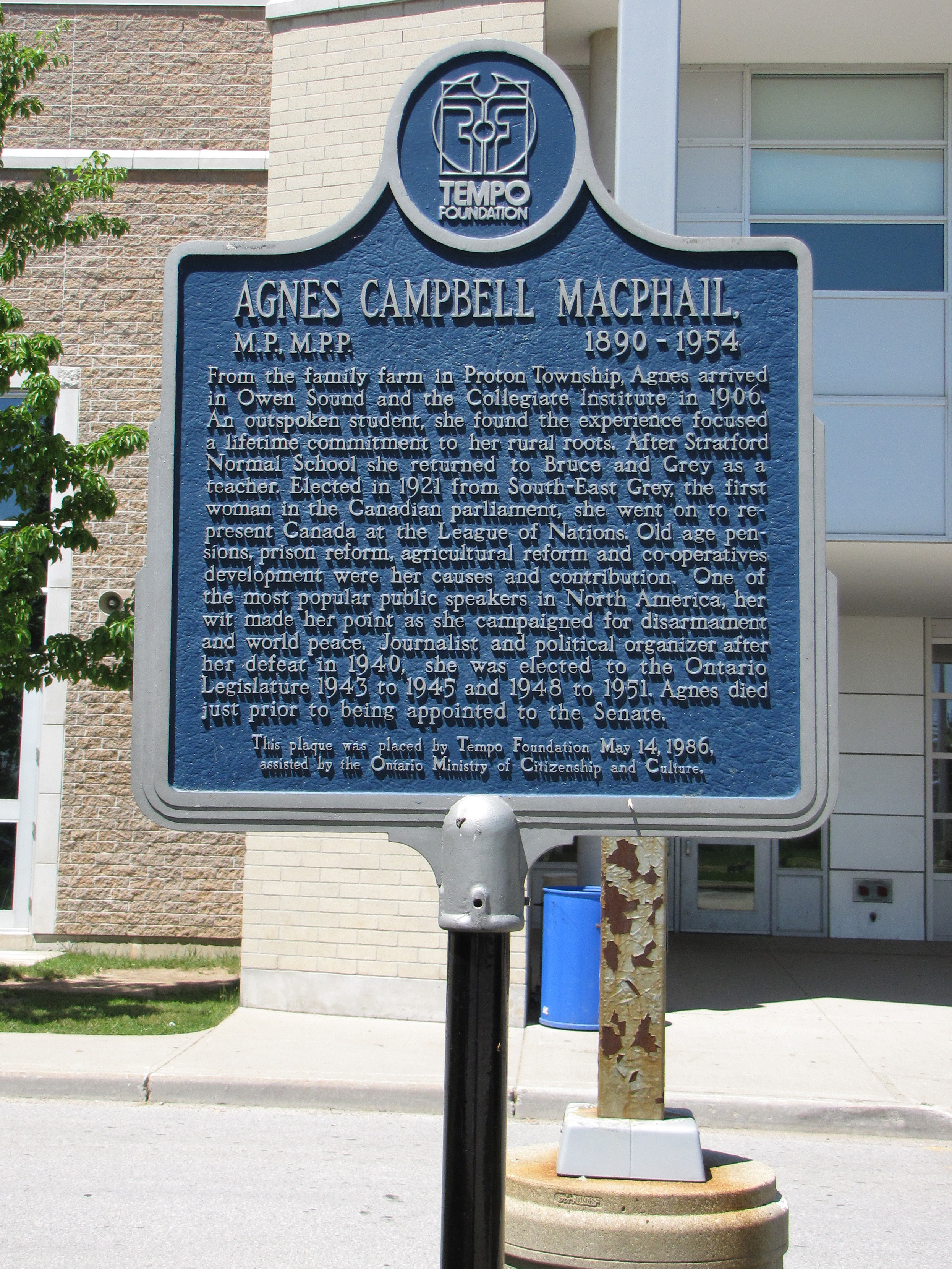 Commemorative plaque honoring Agnes Macphail, on the grounds of Owen Sound Collegiate and Vocational Institute (the high school she attended).